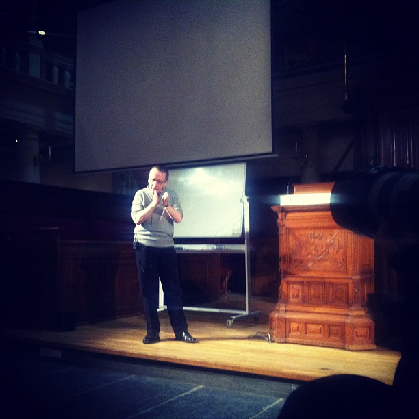 Manuel De Landa talking at a lecture in Amsterdam in 2011